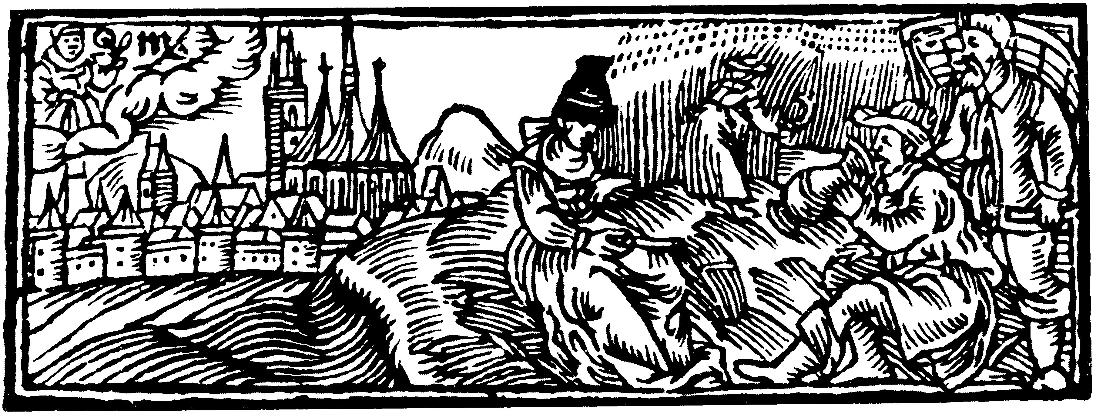 Harvest by Louny in the year 1604